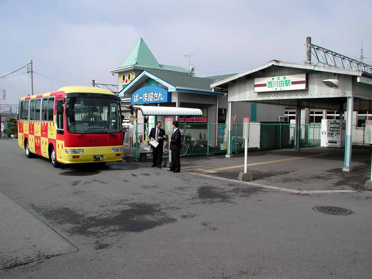 Tobu Railway Nishi-kawada station East Entrance